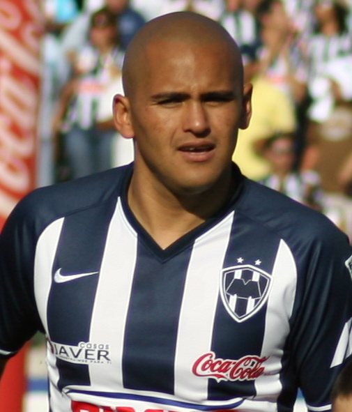 Chilean footballer Humberto Suazo from the Monterrey Football Club.